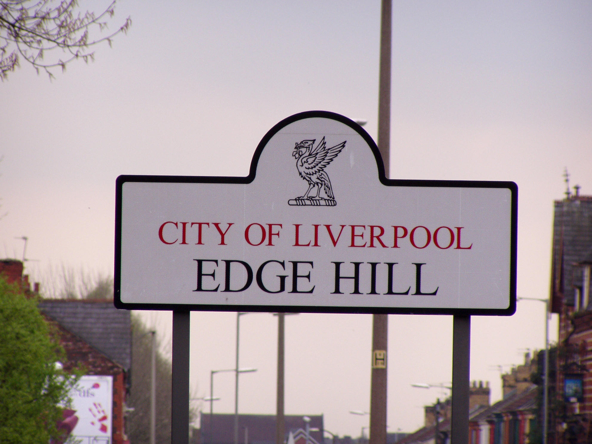 Sign